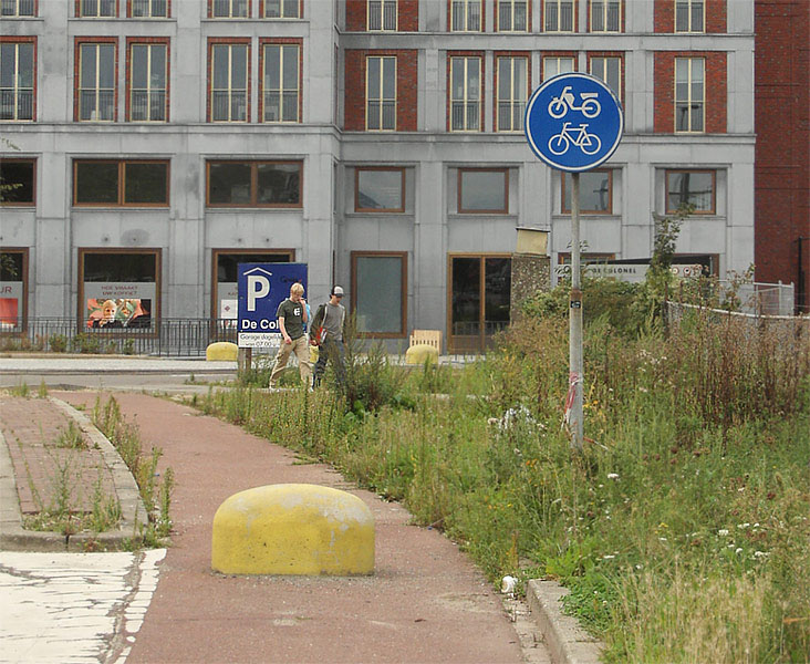 Cycle track in Maastricht, The Netherlands.